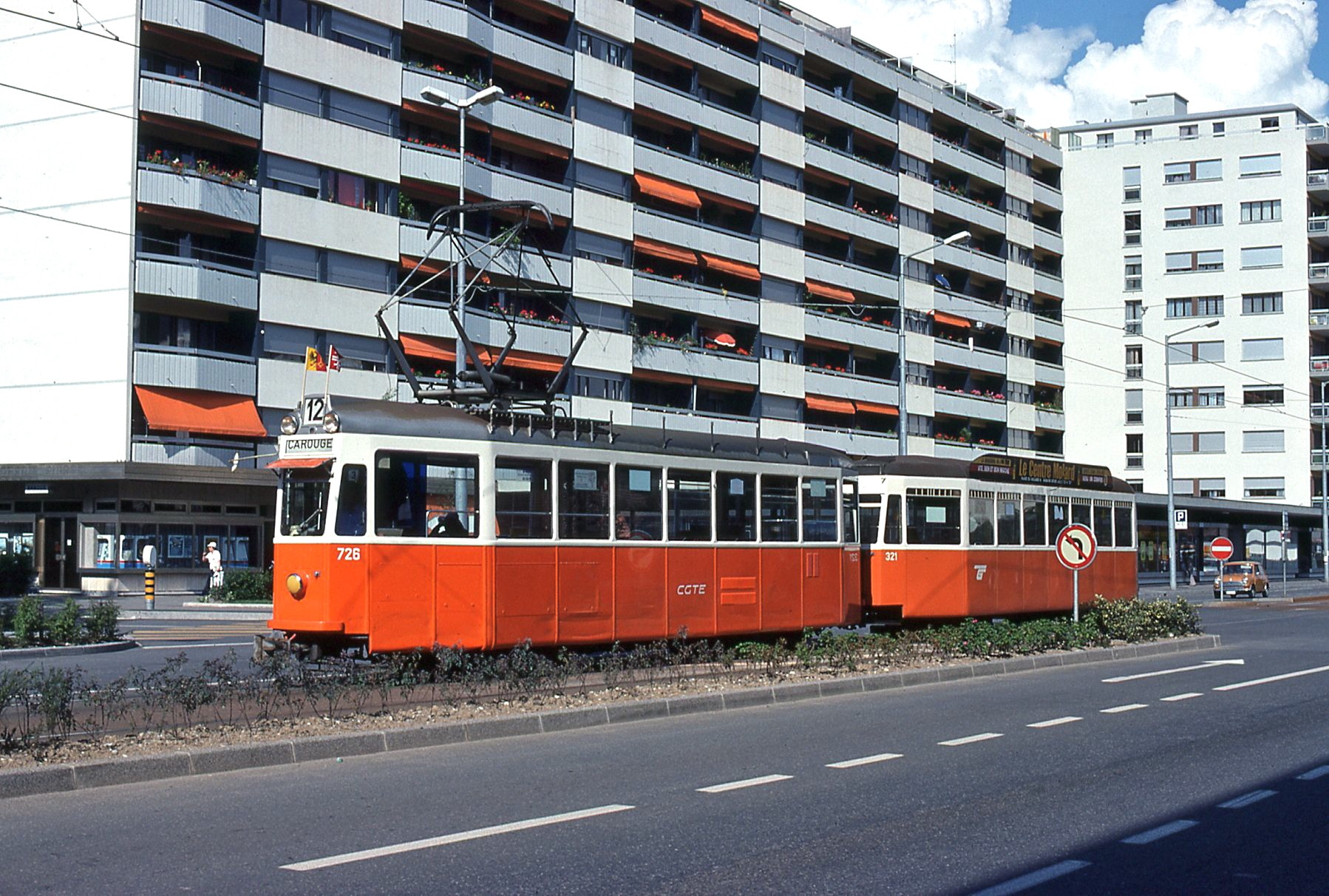 A "Swiss Standard" tram of the Genève tram system westbound on Rue de Genève at Rue François Jacquier, coming from Moillesulaz, and crossing the western boundary of Thônex to enter Chêne-Bourg, in 1978. Genève tram 726 was built in 1951 and is hauling 1947-built trailer 321, which was originally a motor tram (no. 101) on the Lucerne (Luzern) tram system. The Lucerne system closed in 1961, and its Swiss Standard cars 101-110 were acquired by CGTE in Genève, who converted them in 1969–70 into trailers.